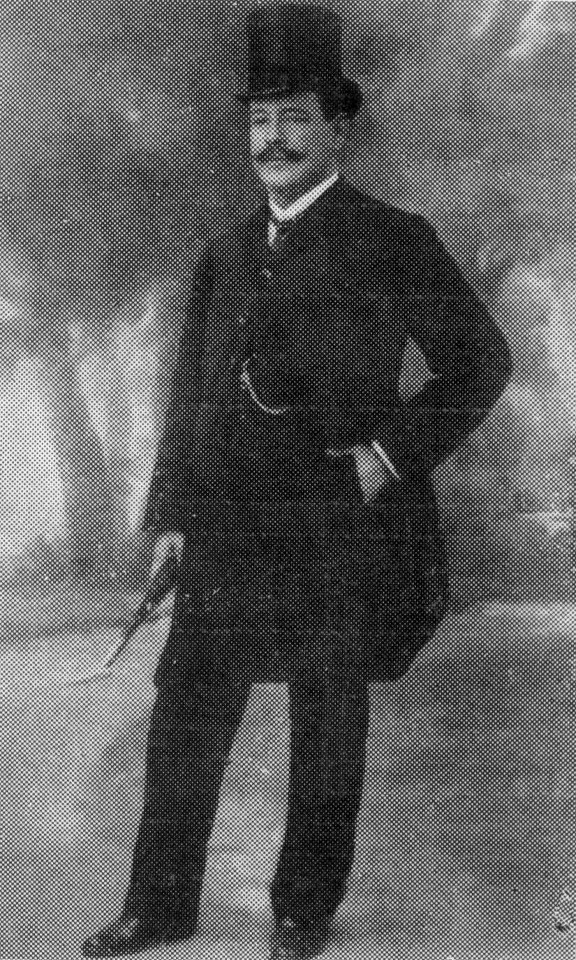 Photo domain public of brazilian writer Horacio de Carvalho in Paris (1908).